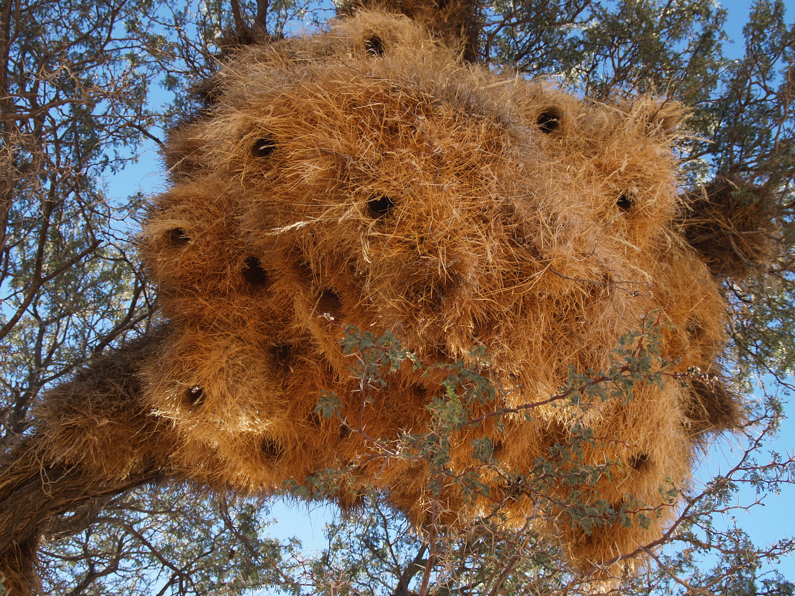 Nests of Social Weaver Philetairus socius